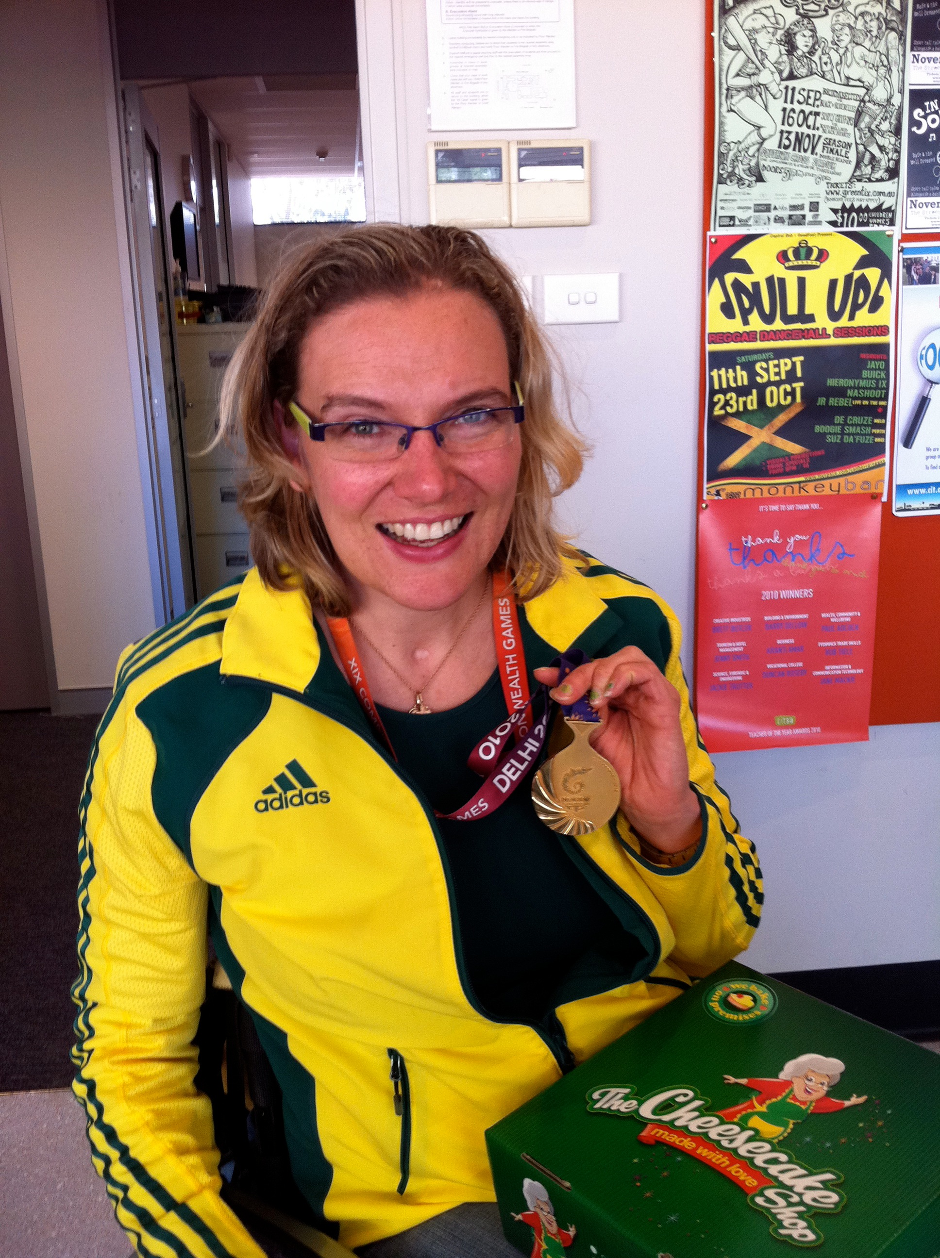 Louise Ellery, Australian Athlete with her gold medal from Commonwealth Games in Delhi.